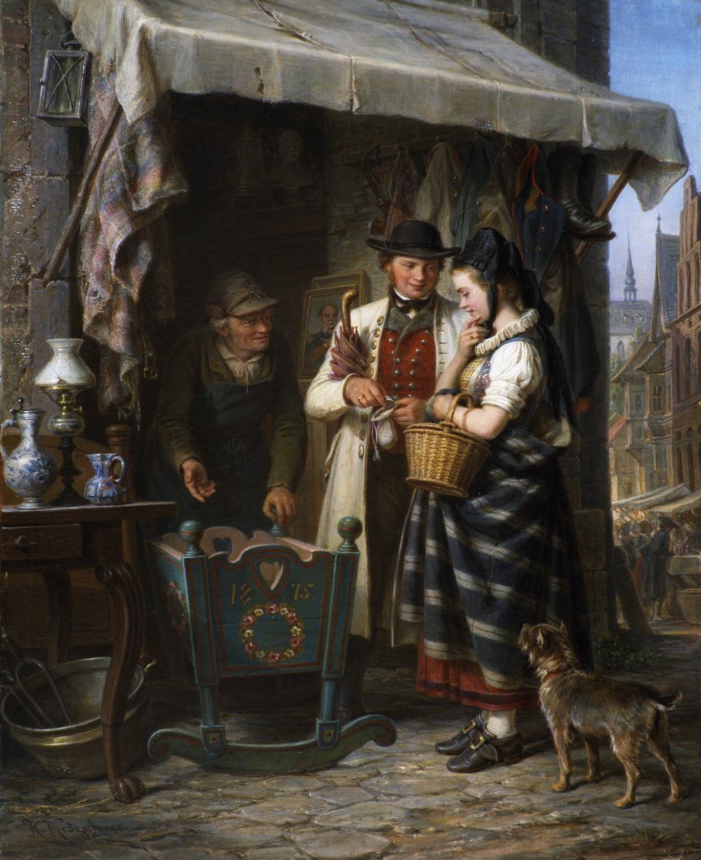 Der Kinderwiege